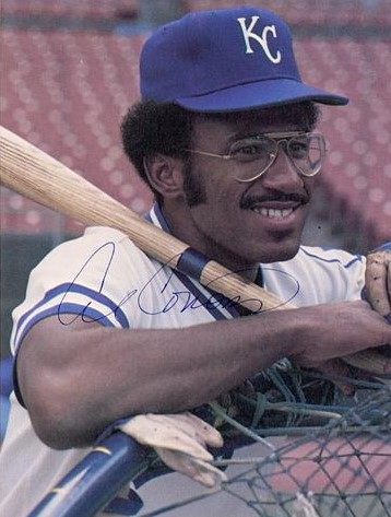 Image cropped from a baseball card of Al Cowens from the 1979 Kansas City Royals Photocards set.